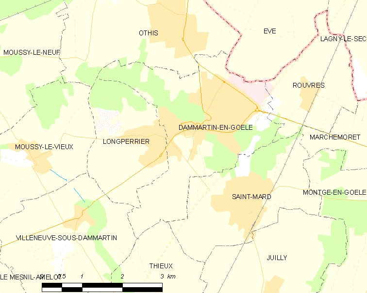 Map of French municipality Dammartin-en-Goële